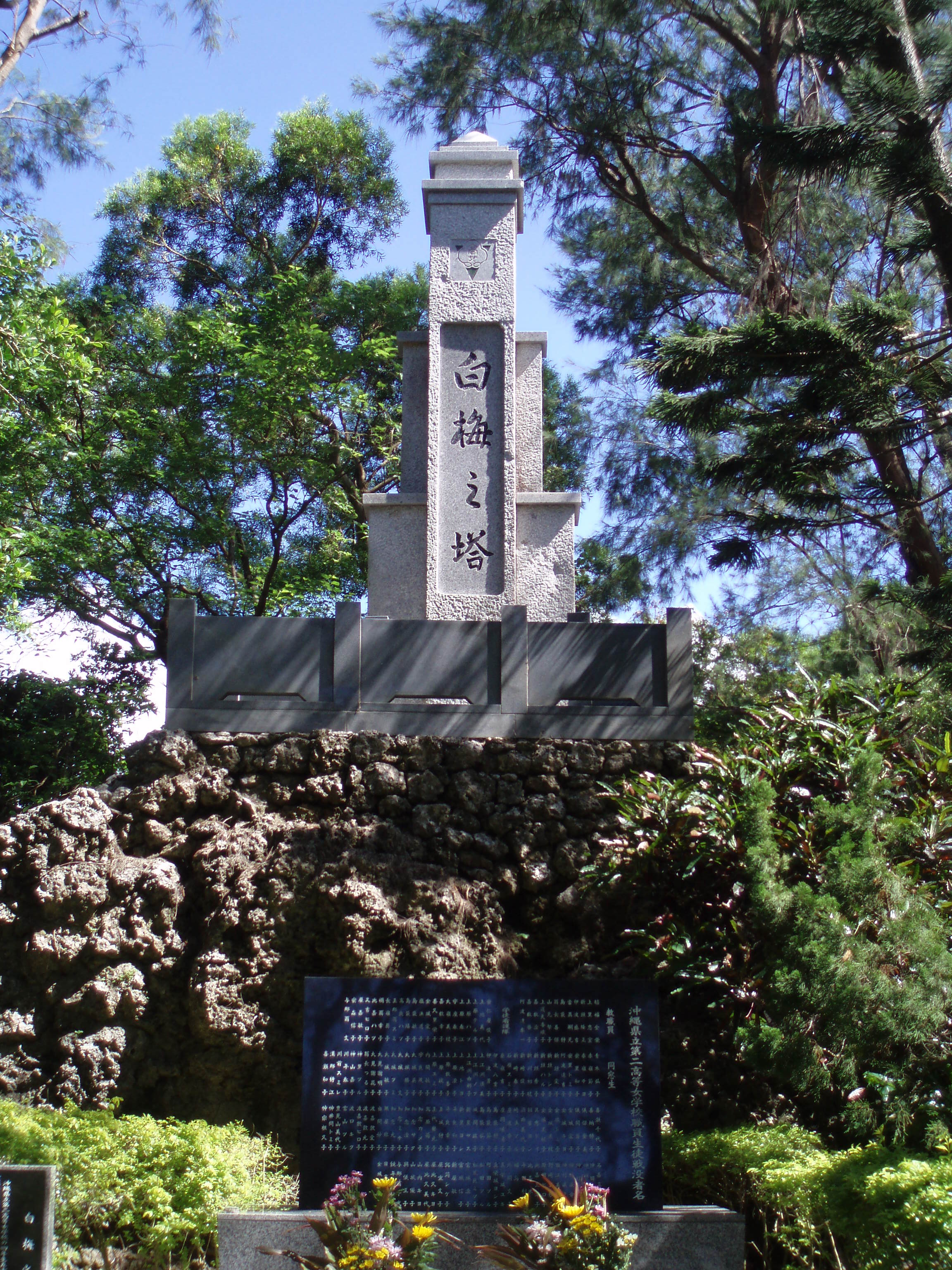 shiraume_toh